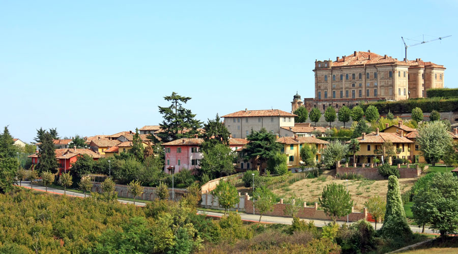 Panorama of Guarene, Cuneo, Italy